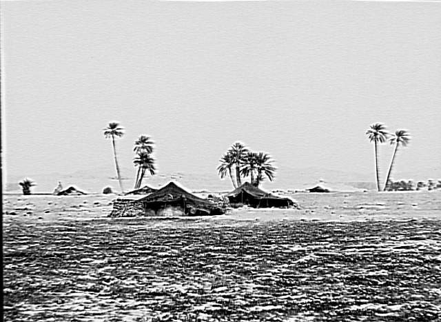 Conversion of Gustave_de_Beaucorps_-_Biskra,_camp_nomade.jpg made with Gimp (invert values)